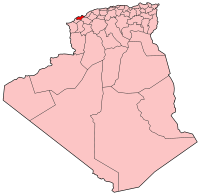 Map of Algeria showing Oran province.